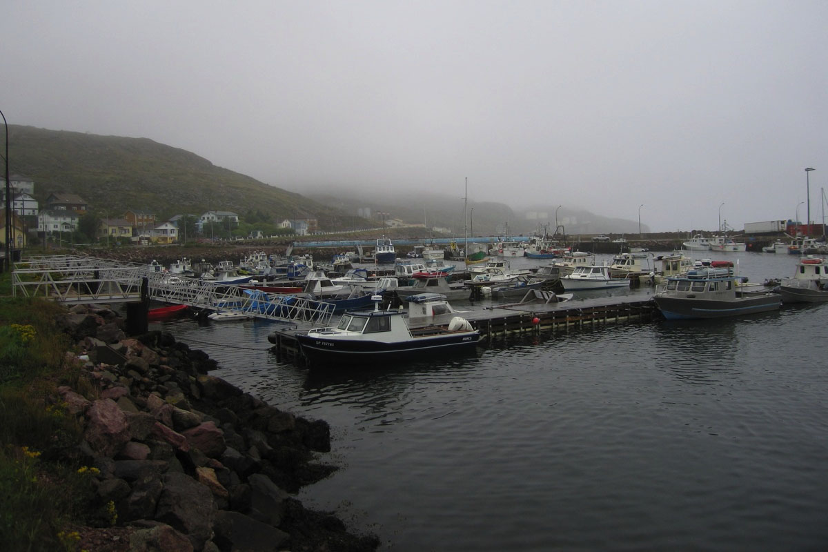 Saint-Pierre Miquelon, North Atlantic